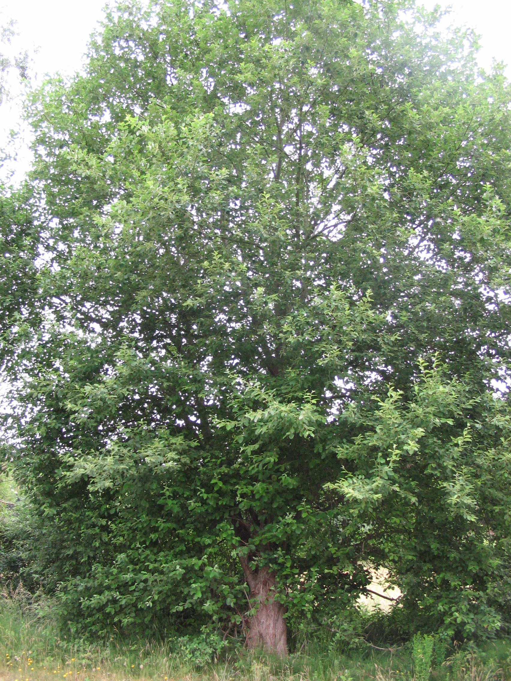 Salix aurita, a species of willow, in Saint-Aubin-le-Cauf, Seine-Maritime, Haute-Normandie, France.